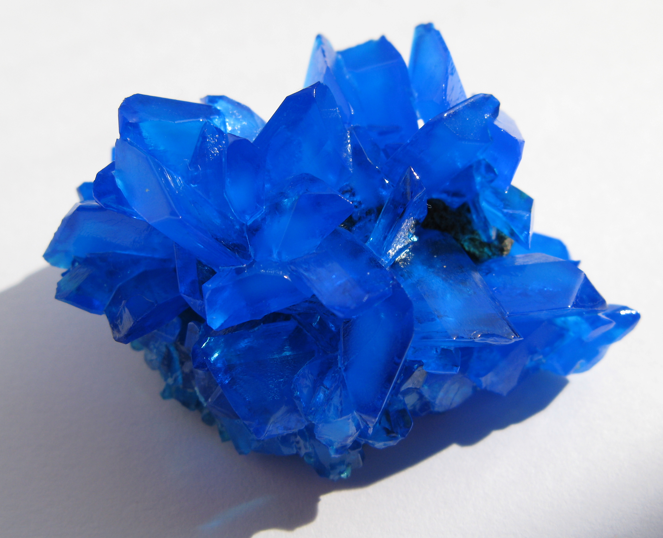 copper sulfate, Mineral name: Chalcanthite, short time brushed and cleaned under water and on that way cured from dehydration (look also other version)